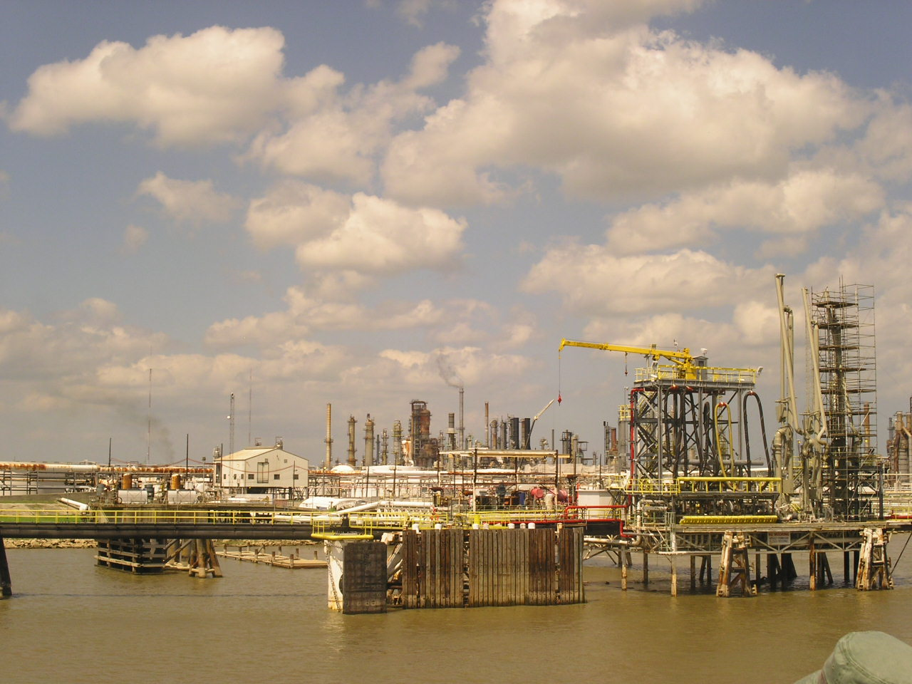 An oil refinery on the Mississippi River near New Orleans, Louisiana, USA.Factory by the Mississippi